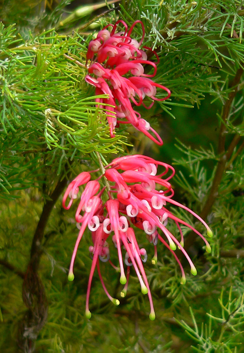 Photo of Grevillea fililoba at the San Francisco Botanical Garden